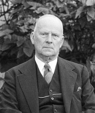 Michael Bruxner posing as NSW Leader of the Country Party on 10 May 1951.